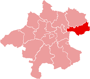 Location of Bezirk Perg within the Land of Upper Austria